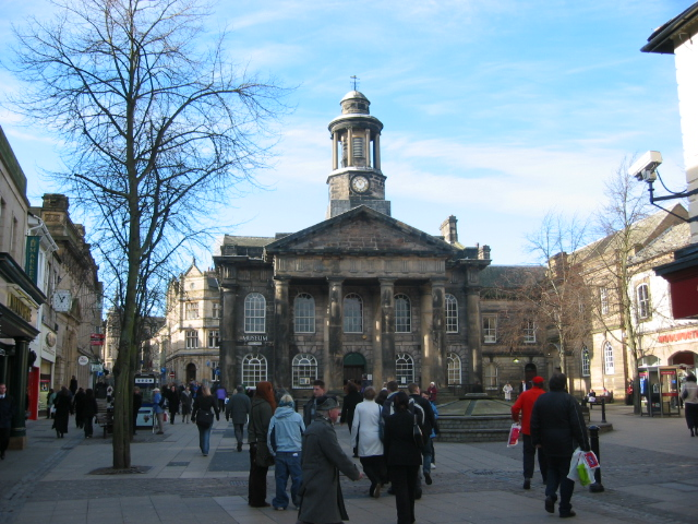 Lancaster Museum in Market Square, Lancaster, England. Photo take by Dudesleeper on January 29, 2003.